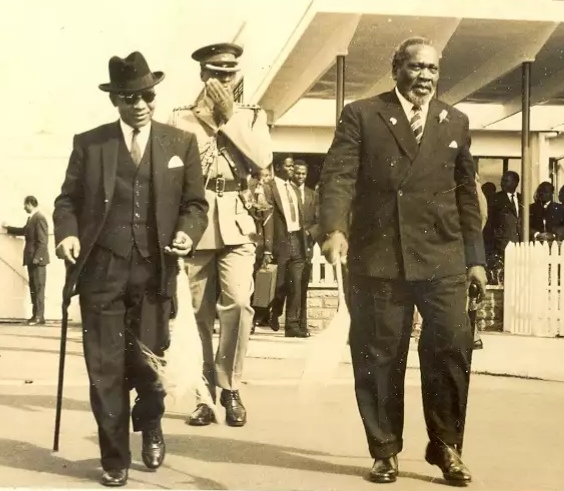 Jomo Kenyatta escorts Dr Banda at the end of the latters visit